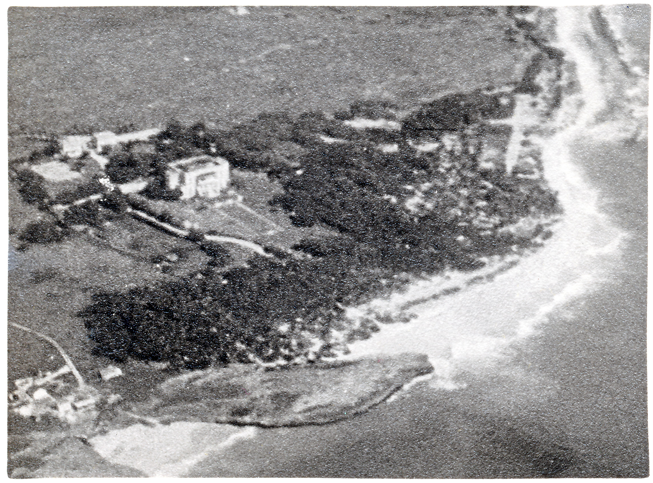 Photo taken by my father, Dr. A. E. (Ted) Hill, from an airplane on our way to Trinidad in 1949.